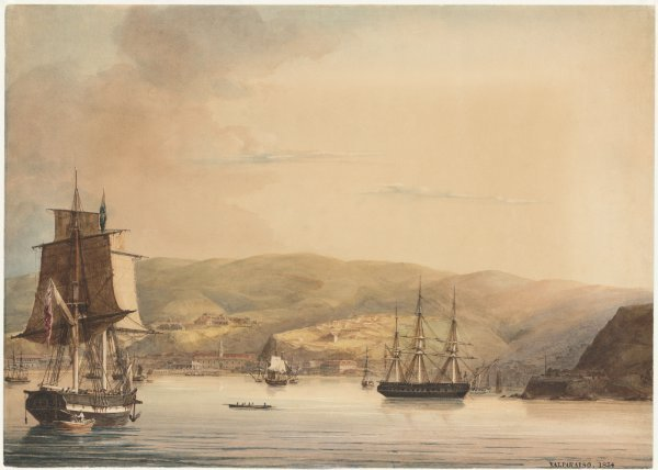 View of Valparaíso in 1834, during the Second voyage of HMS Beagle.